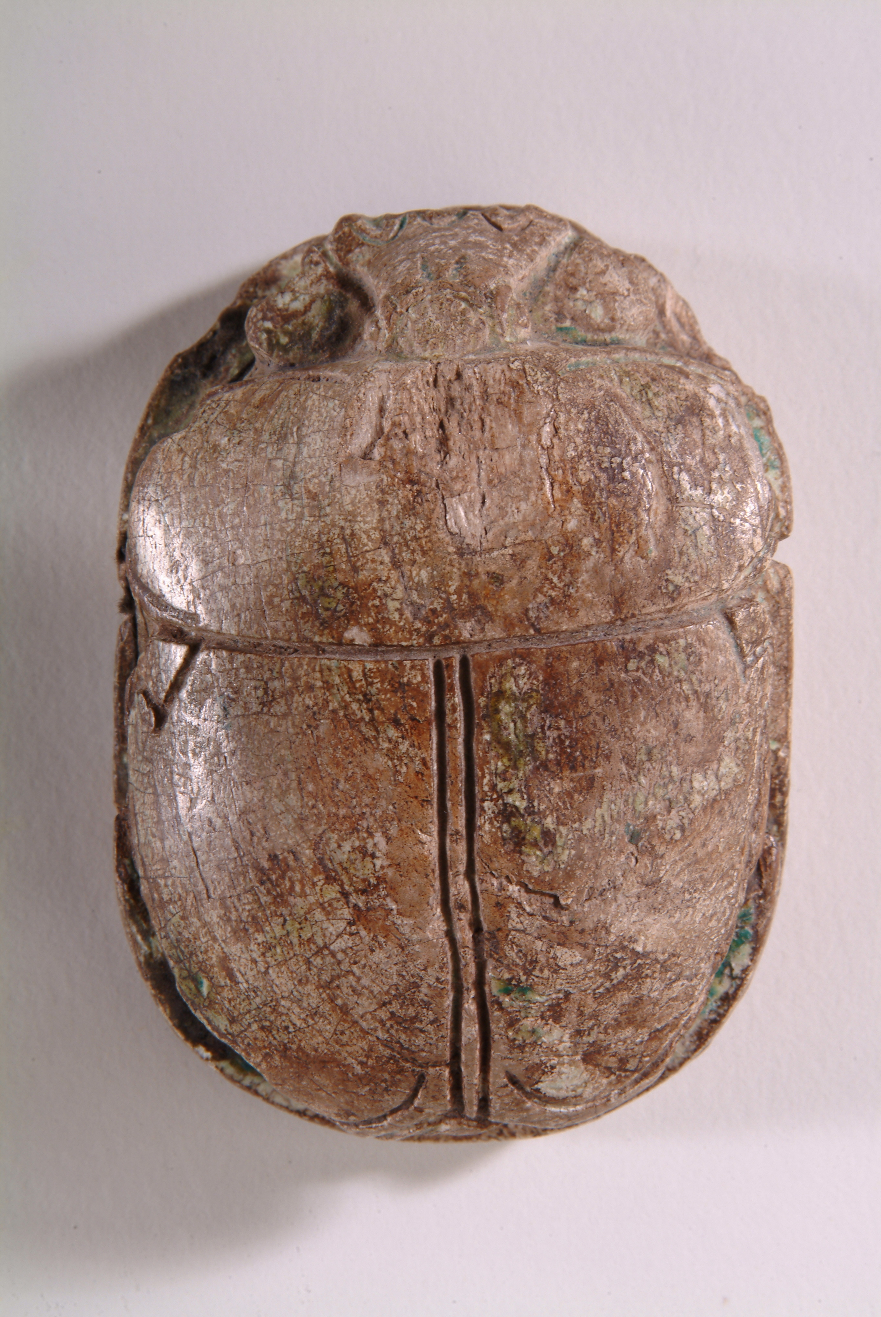 Large blue-glazed steatite scarab showing the famous lion hunt of Amenophis III (c.1388=1351/50 B.C.) and Queen Tiye, recording that in the first ten years of his reign the king killed 102 fierce lions with his own hands. One of over 120 versions of this scarab in existence. Donated by Benjamin Kent in 1969.